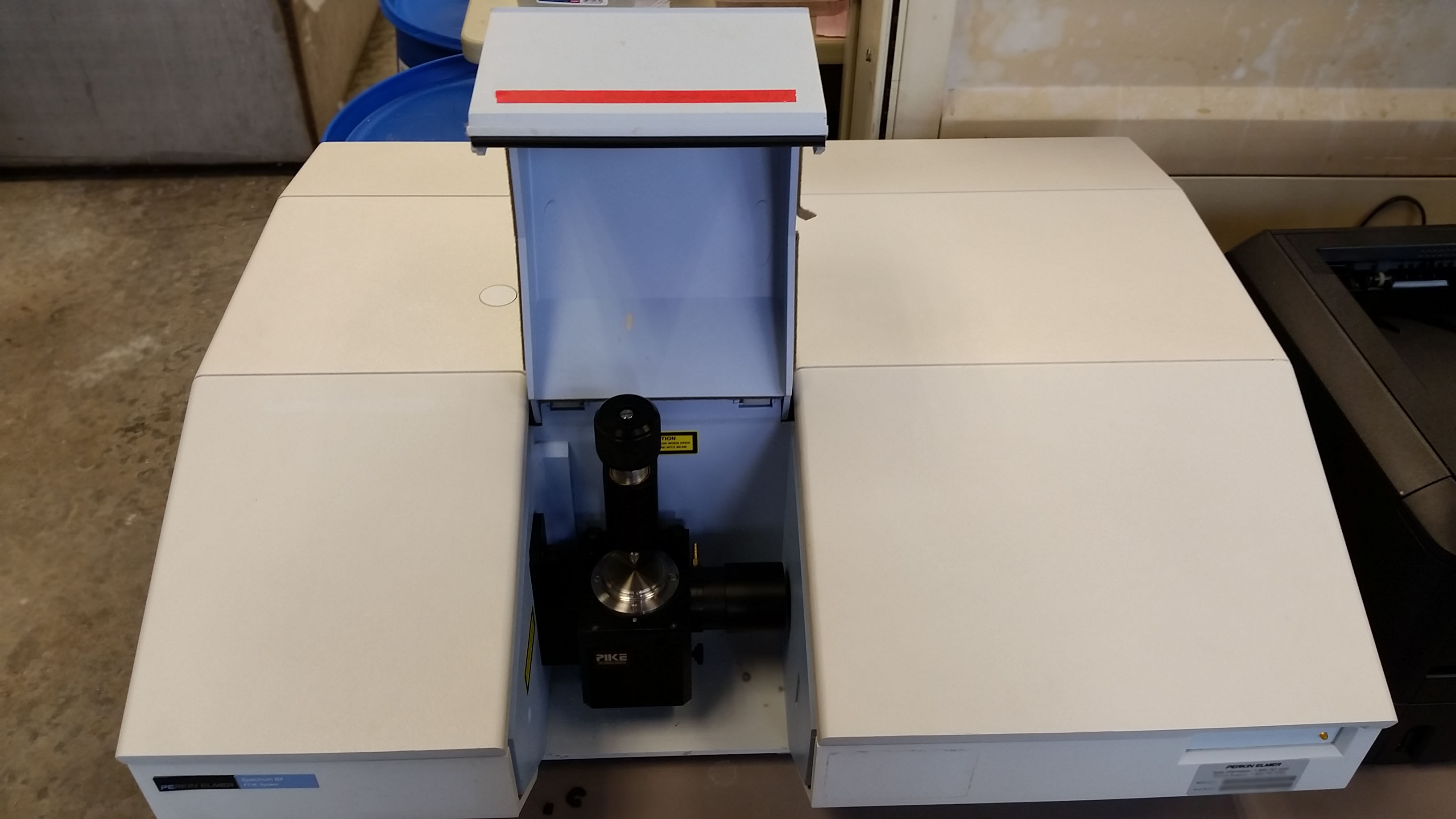 Spectrum BX FTIR Spectrometer, with ATR attachment